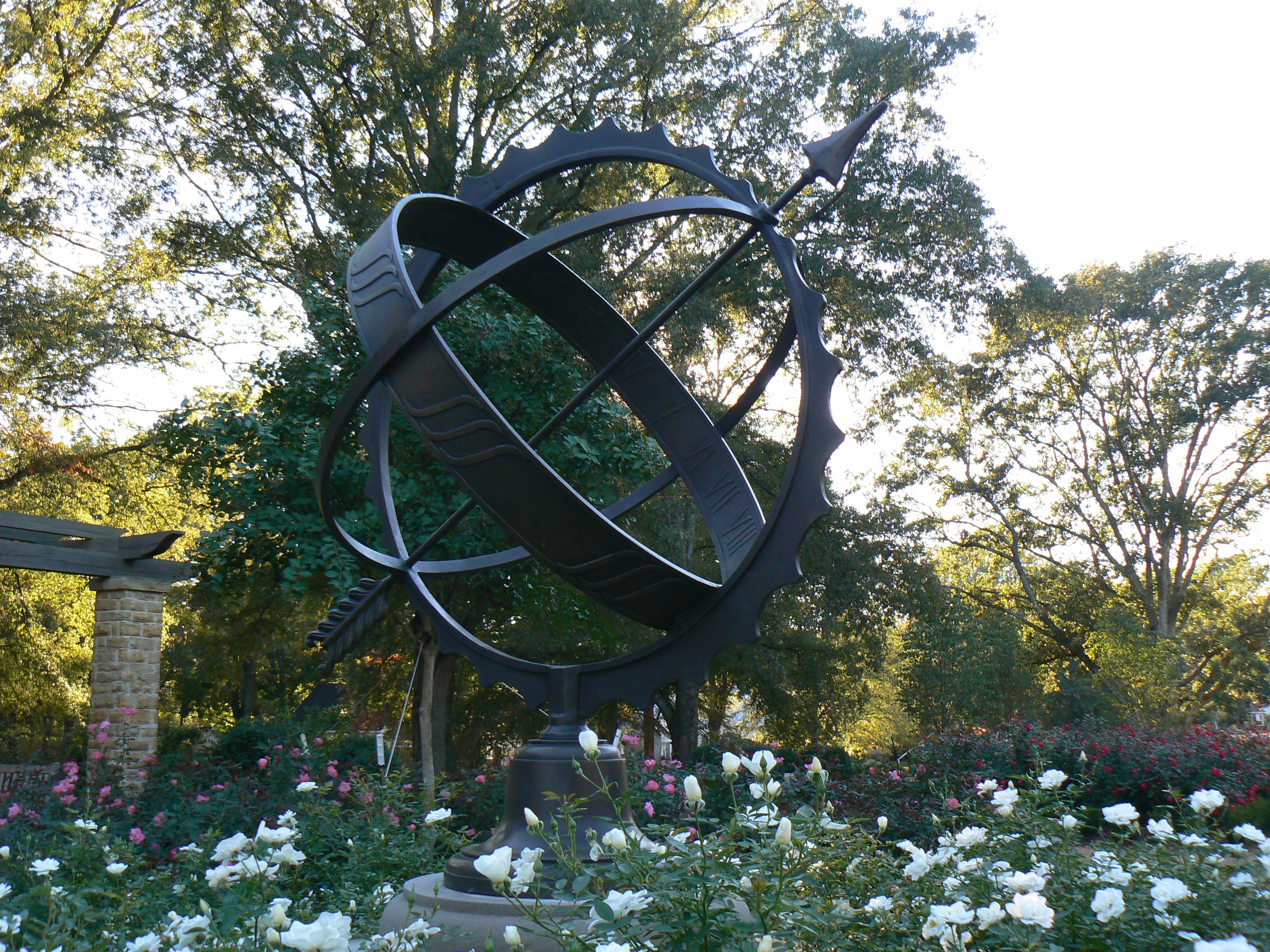 Self taken photo of replica structure in Delano Park (Decatur) Rose Garden.